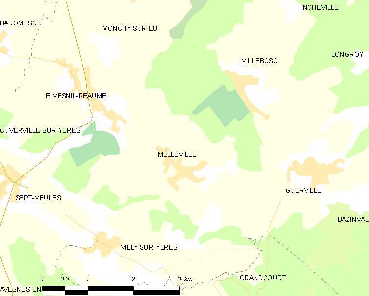 Map of French municipality Melleville